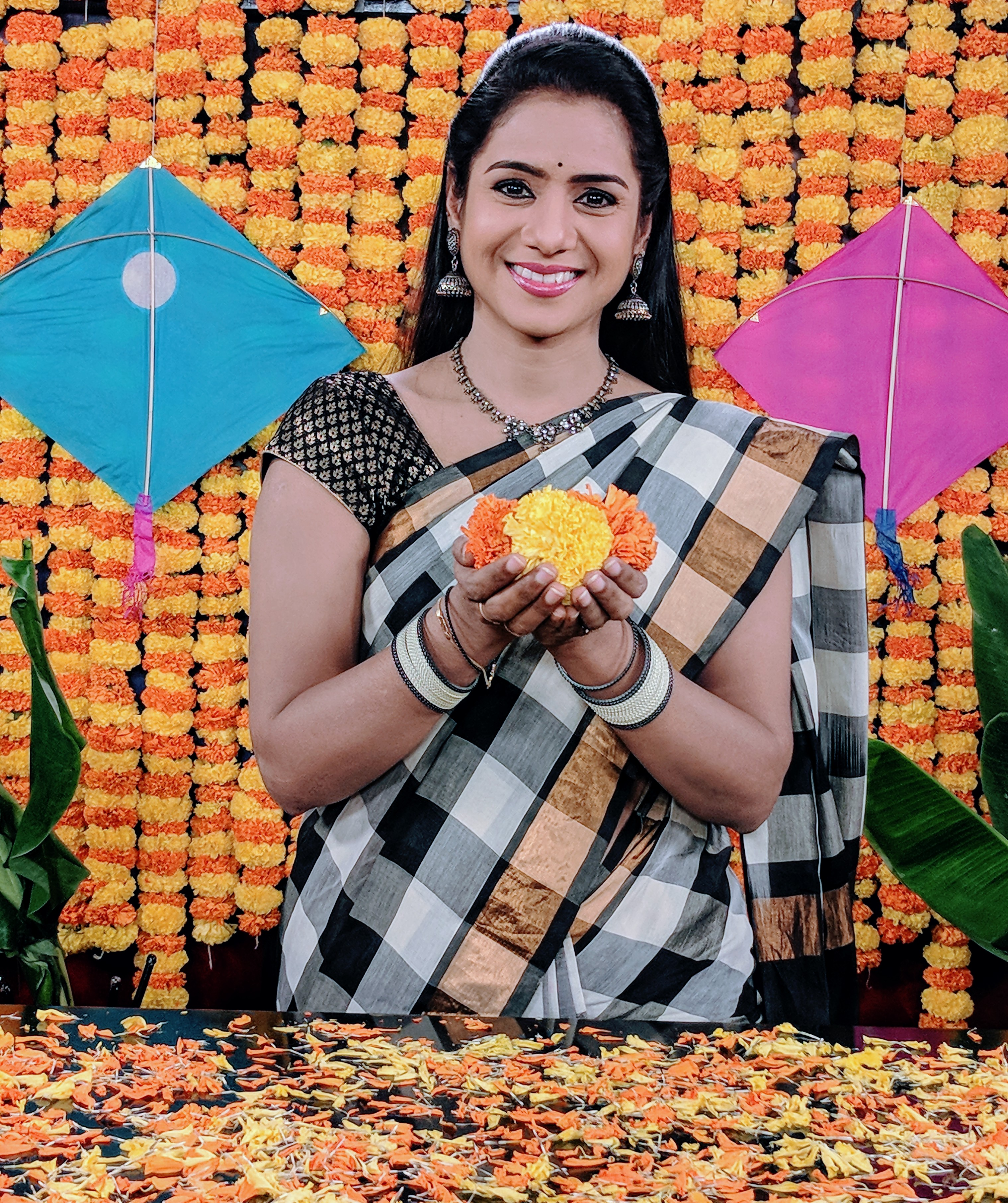 Anchor Sumalatha Reddy celebrating Sankranti (సంక్రాంతి) festival in January 2018